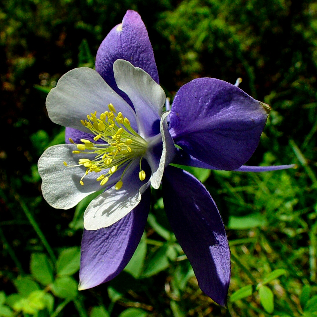 Colorado Blue Columbine (Aquilegia caerulea) best flower pic of 2004